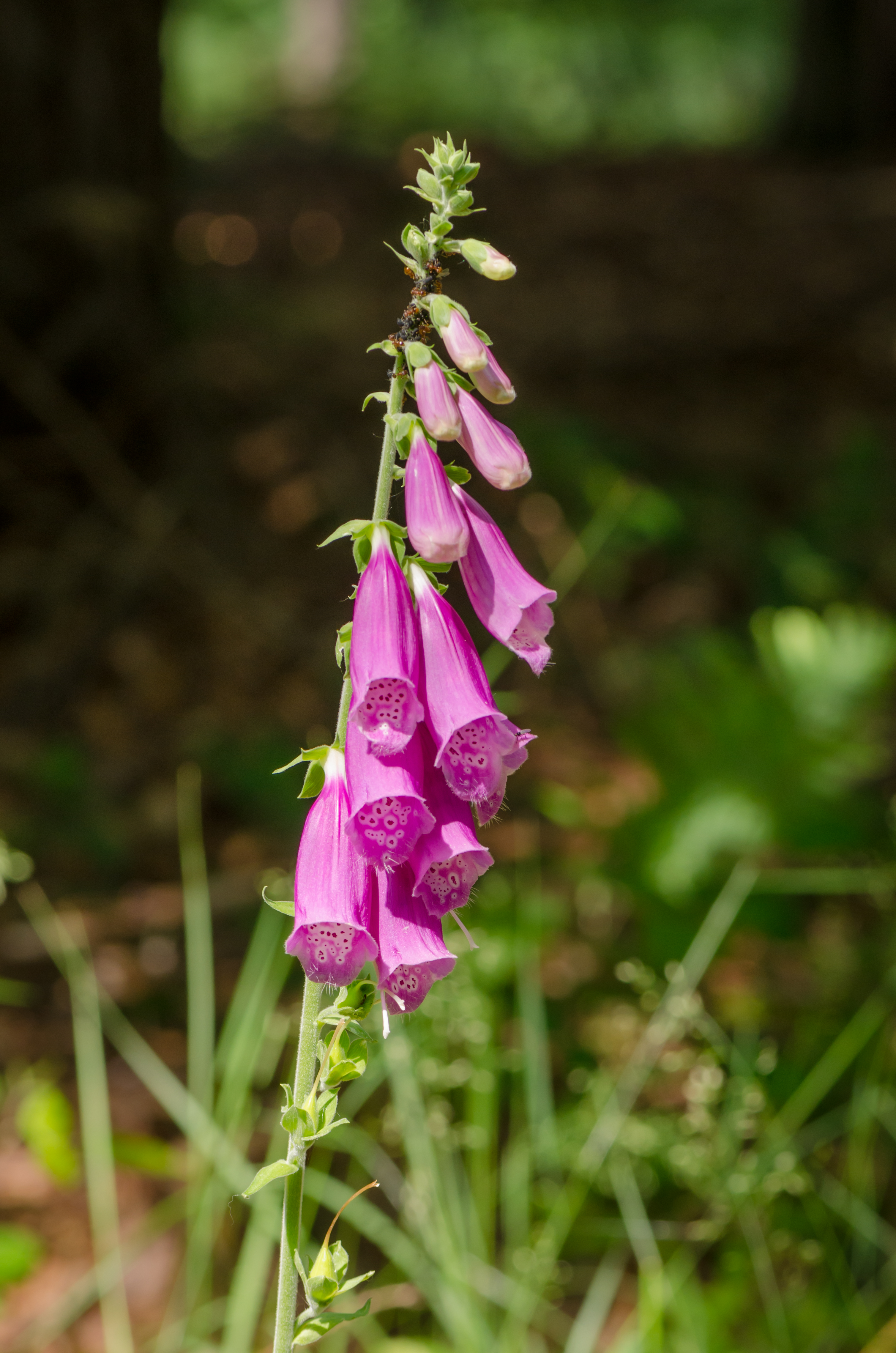 Digitalis purpurea - Purple Foxglove - Hesse - Germany.